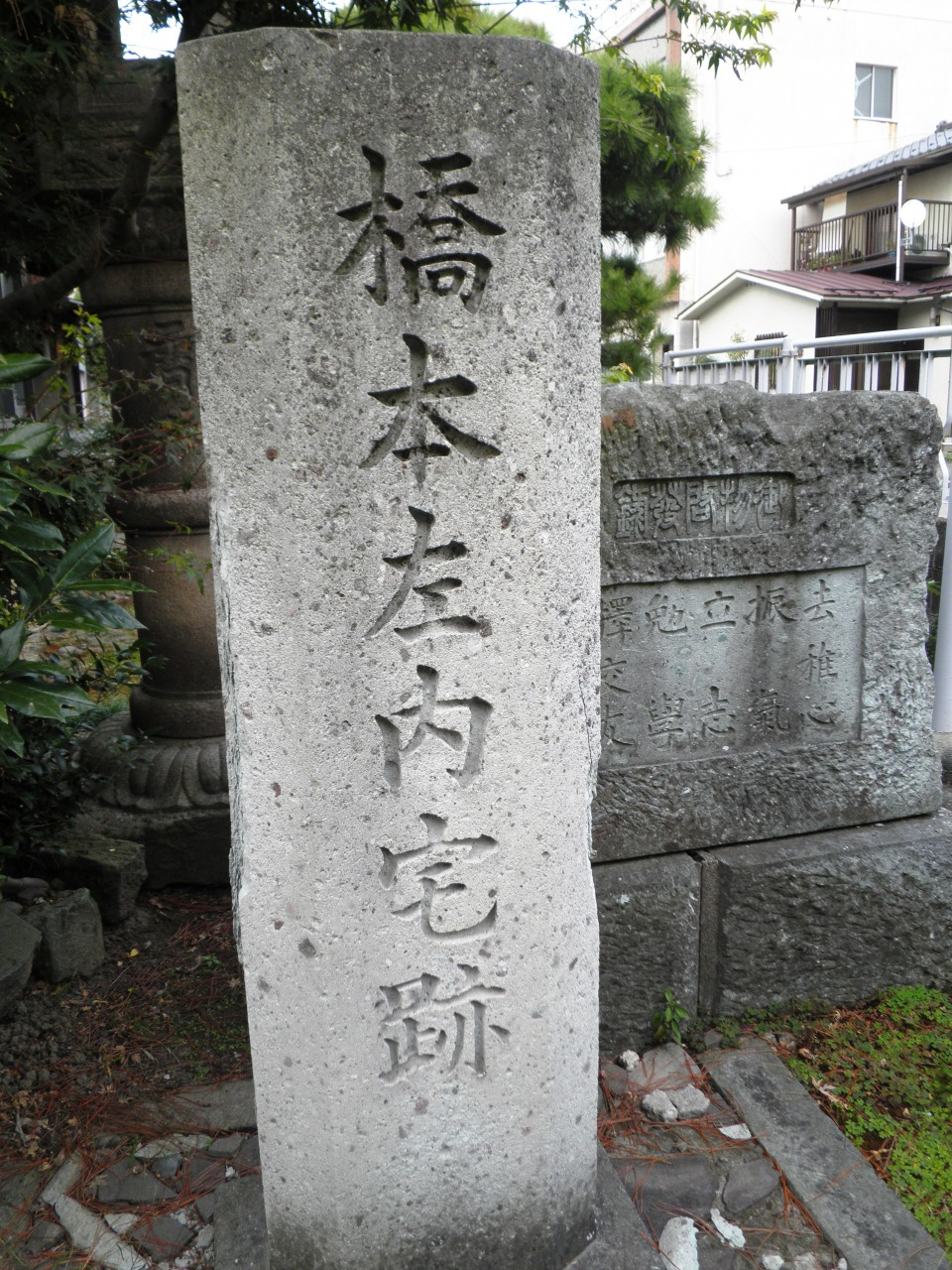 Sanai Hashimoto's Birthplace in Fikui, Fukui. 橋本左内生家跡（福井県福井市春山）